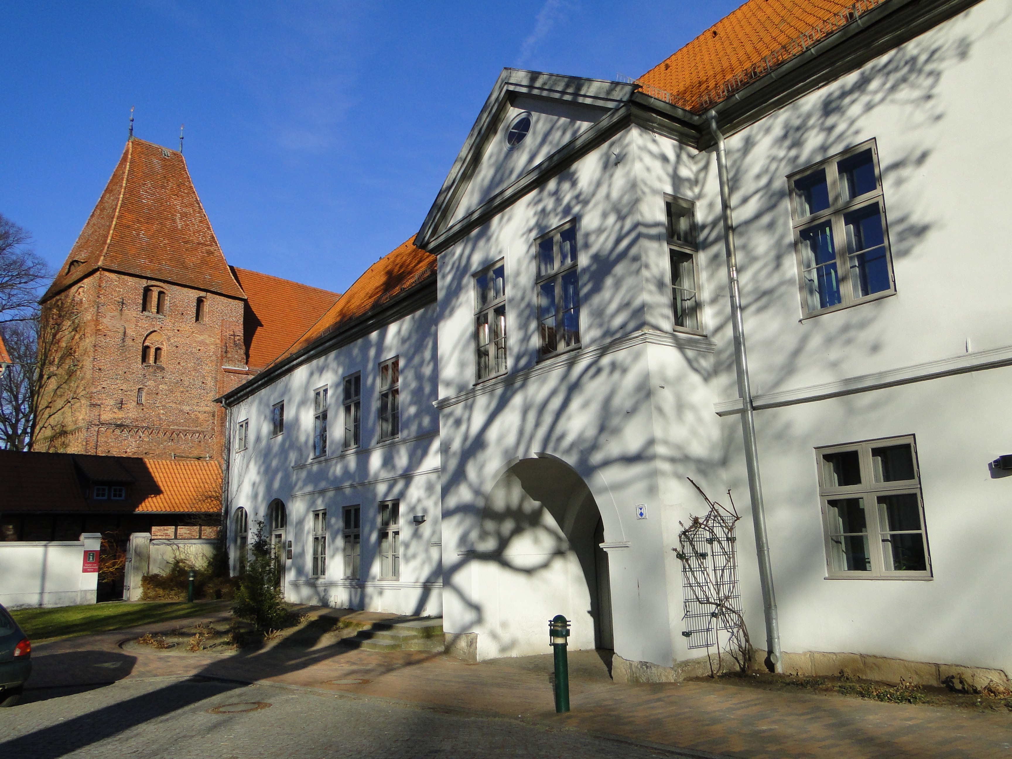 Langes Haus (long house) of monastery in Rehna, district Nordwestmecklenburg, Mecklenburg-Vorpommern, Germany